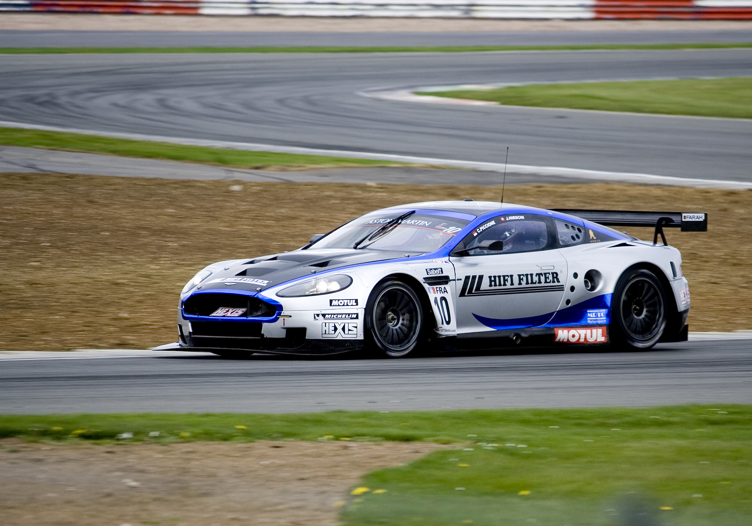 FIA GT1 Qualifying - Aston Martin DBR9 (Hexis AMR)